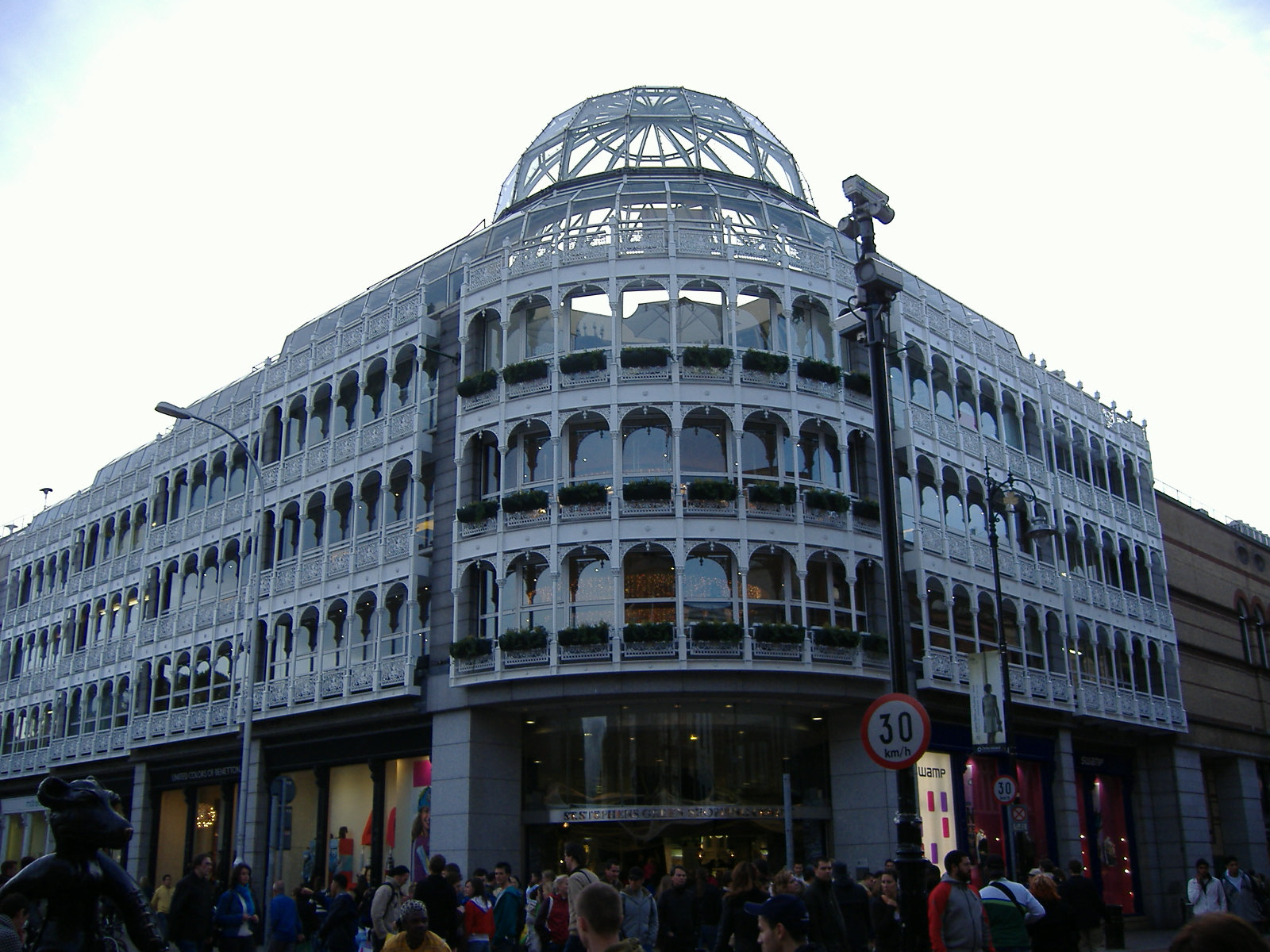 Stephen's Green Shopping Centre in Dublin.